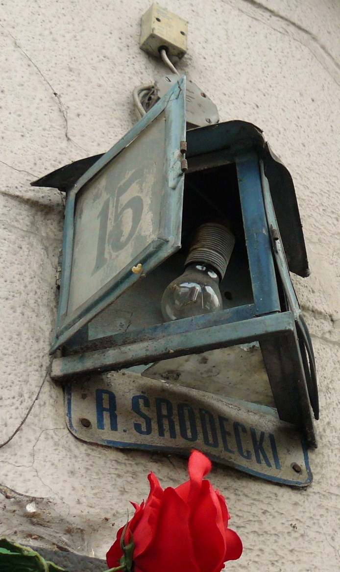 Poznan, Market Squere - Srodka. Detail.